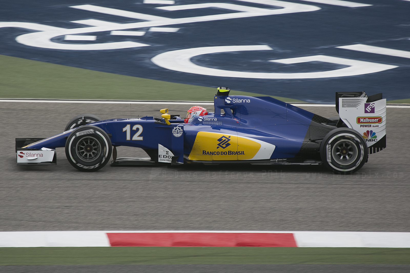 Felipe Nasr at the 2016 Bahrain Grand Prix